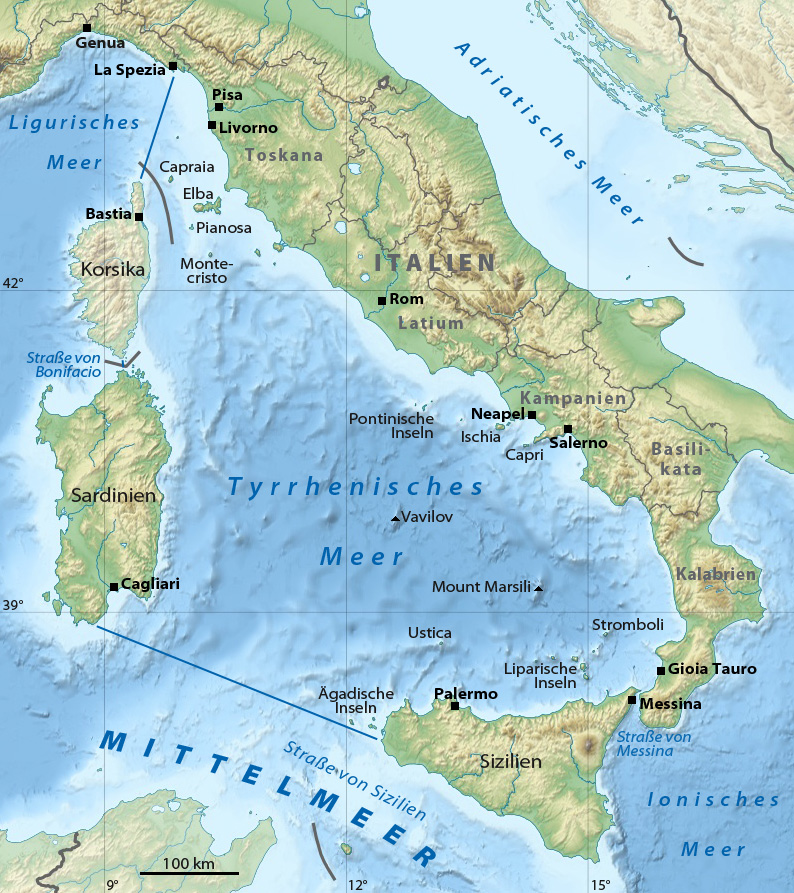 Map of the Tyrrhenian Sea